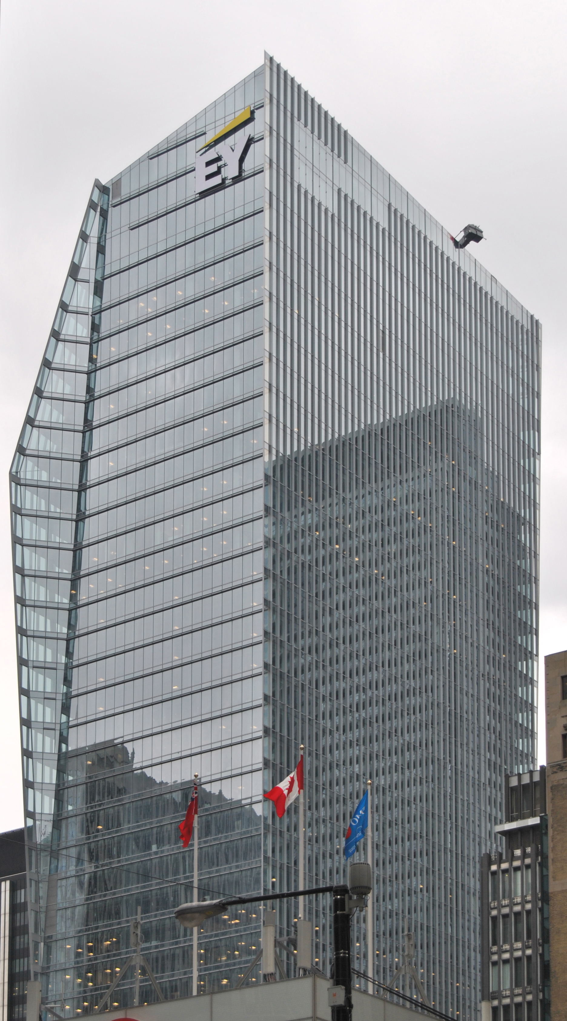 EY Tower from the steps of Commerce Court West at the Financial District, Toronto.